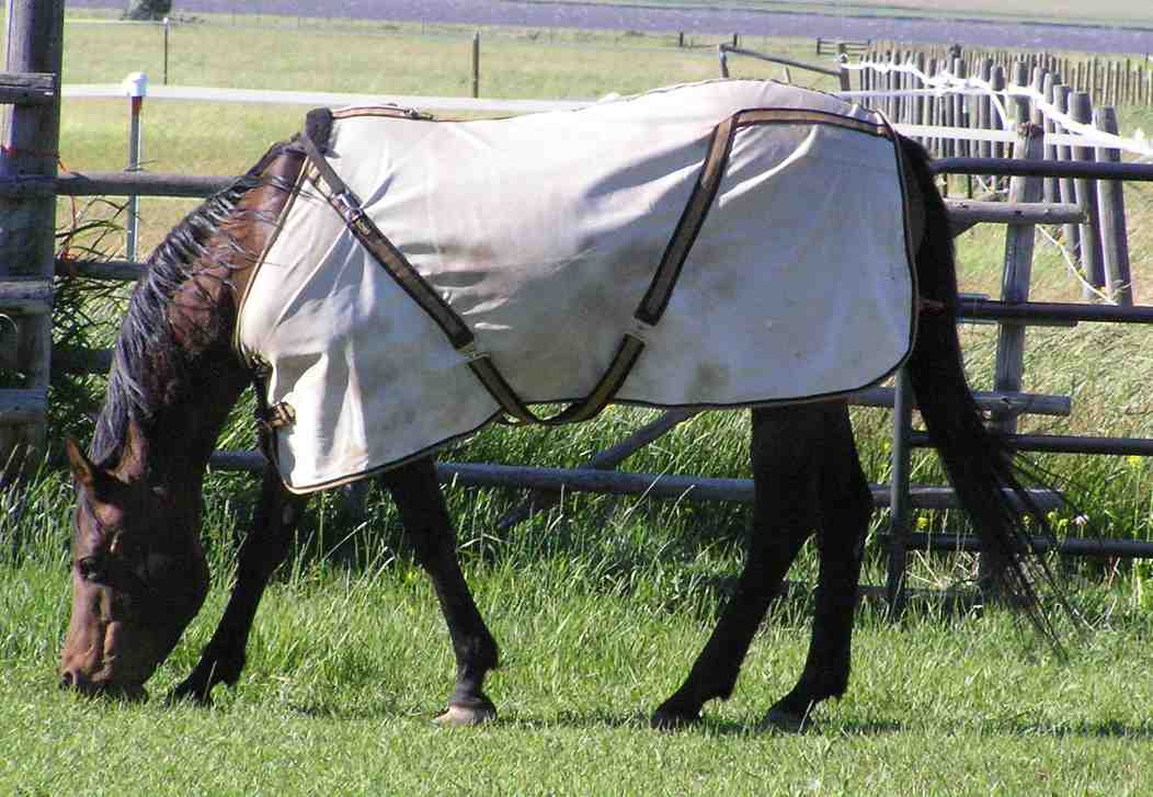 A horse wearing a light summer blanket to keep flies away